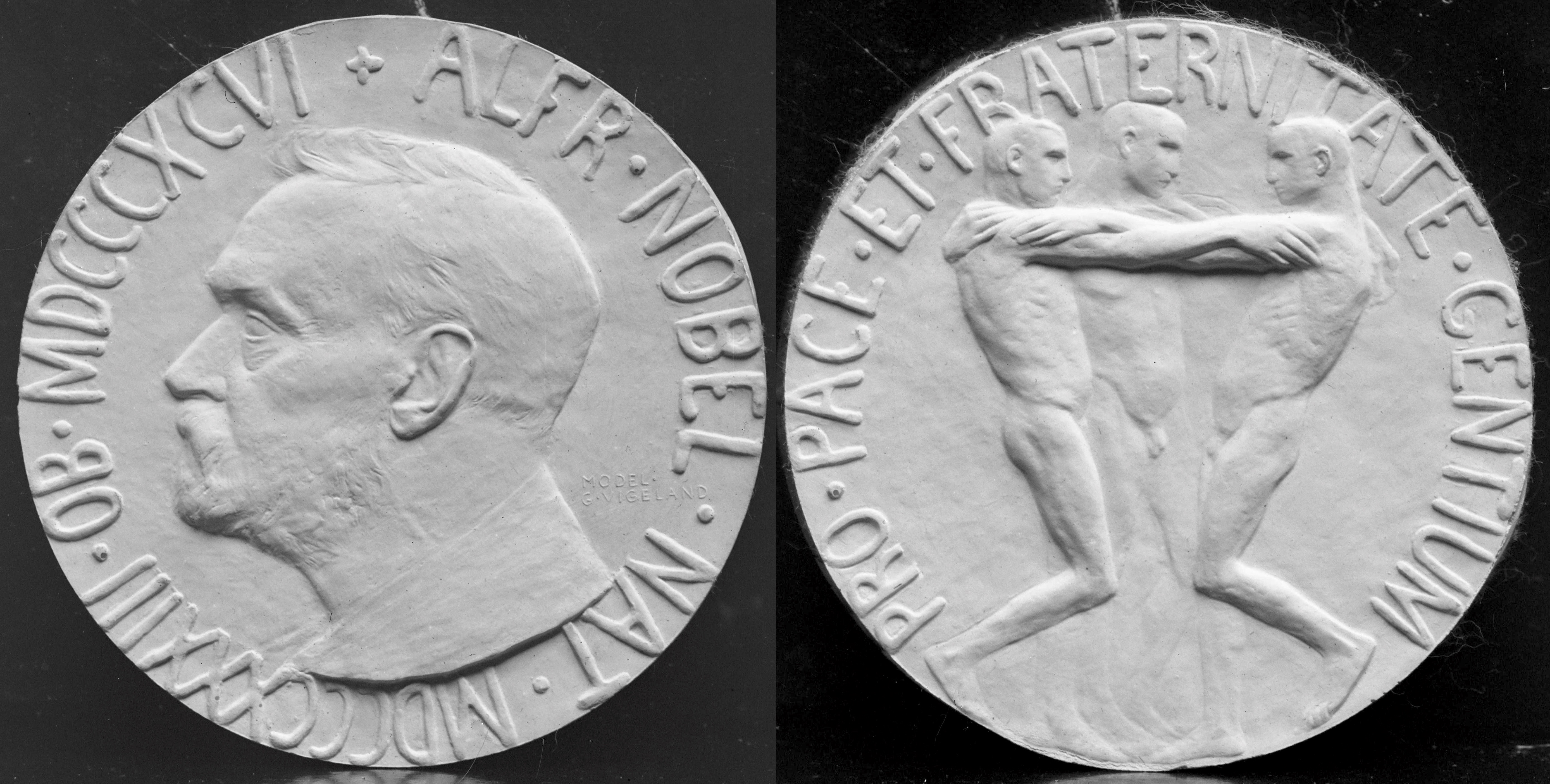 Models with Gustav Vigeland's art work for the Nobel Peace Prize medal 1902. Collage of two images from National Library of Norway (Nationalbiblioteket)